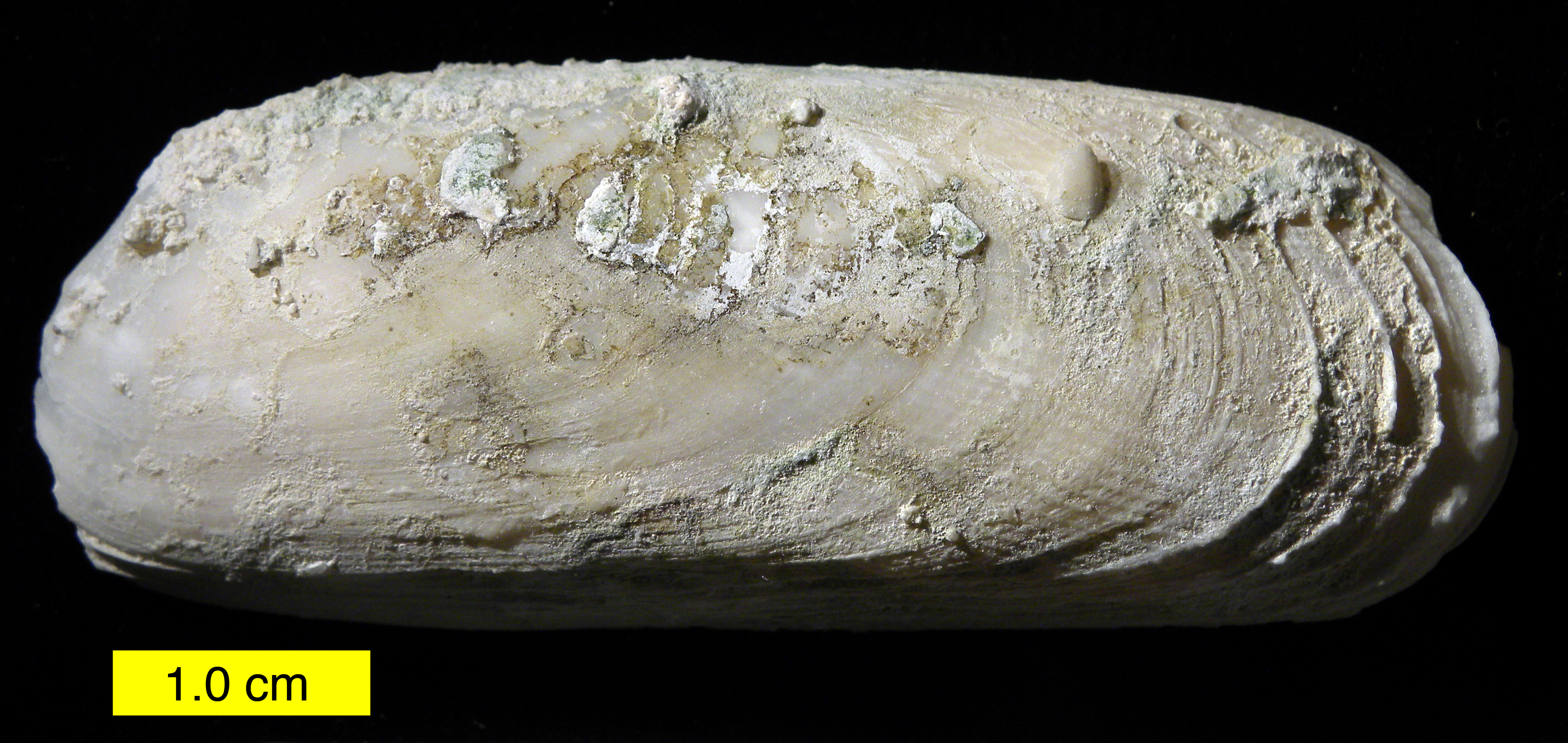 Coralliophaga coralliophaga (Gmelin, 1791), a mytilid bivalve from the Pleistocene (Eemian) of San Salvador Island, The Bahamas.